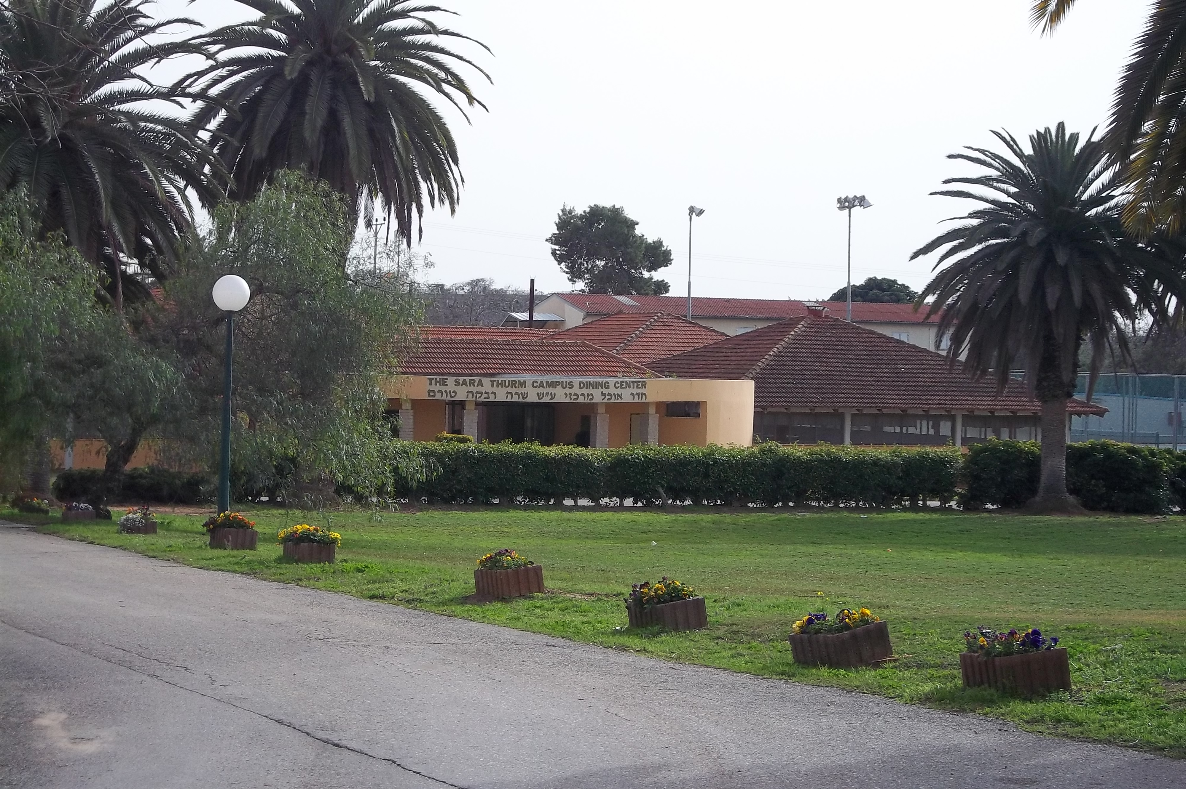 The Sara Thurm Campus Dining Center